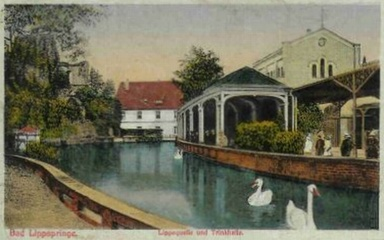 Lippe spring in Bad Lippspringe, Germany, 1910